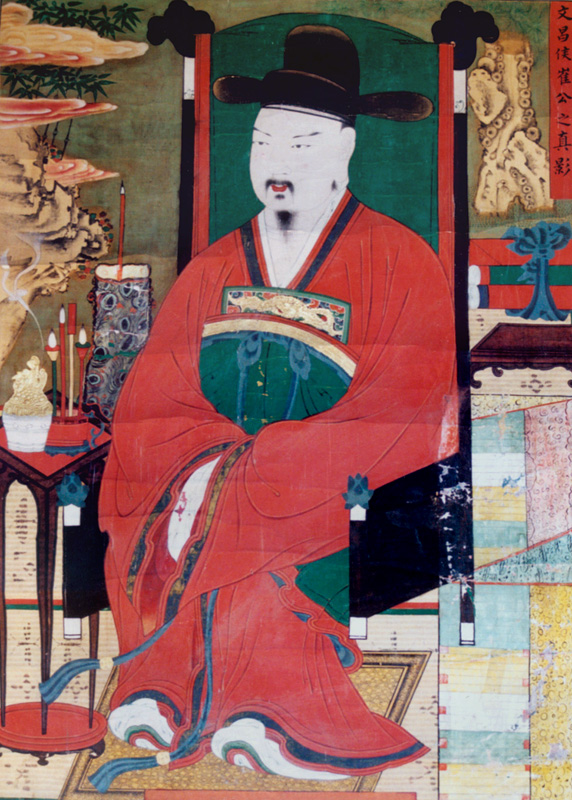 Portrait of Choe Chiwon, Gyeongsangnam-do Tangible Cultural Property No. 187